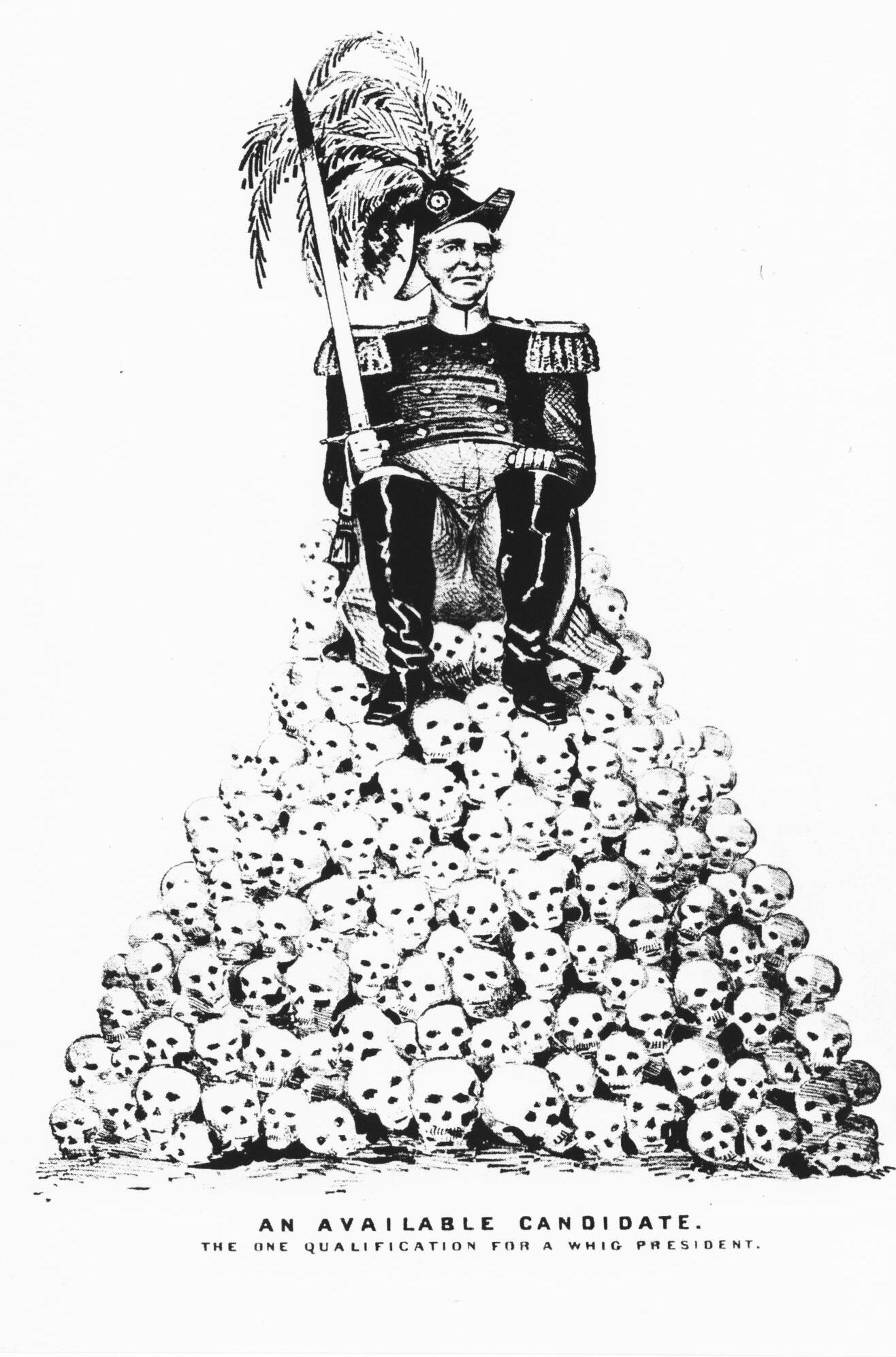 1848 Democratic cartoon attacks Gen. Taylor as butcher in Mexican War by portraying him sitting on a pile of skulls. In mid-19th-century United States political terminology, "available" basically meant electable. Some would have considered this hypocritical, since overall the Democratic party had been much more enthusiastically gung-ho about the war than the Whig party. Original caption: “ An Available Candidate. The one qualification for a Whig president. ”